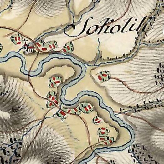 1787 in Sokoliki